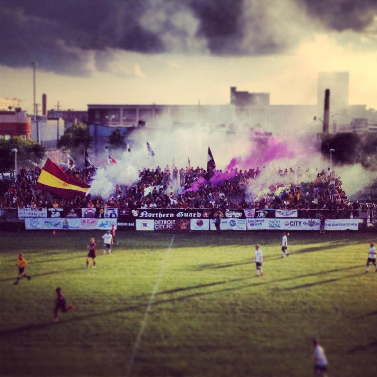 Detroit City FC Supporters at Cass Tech celebrate a goal during a regular season home match.